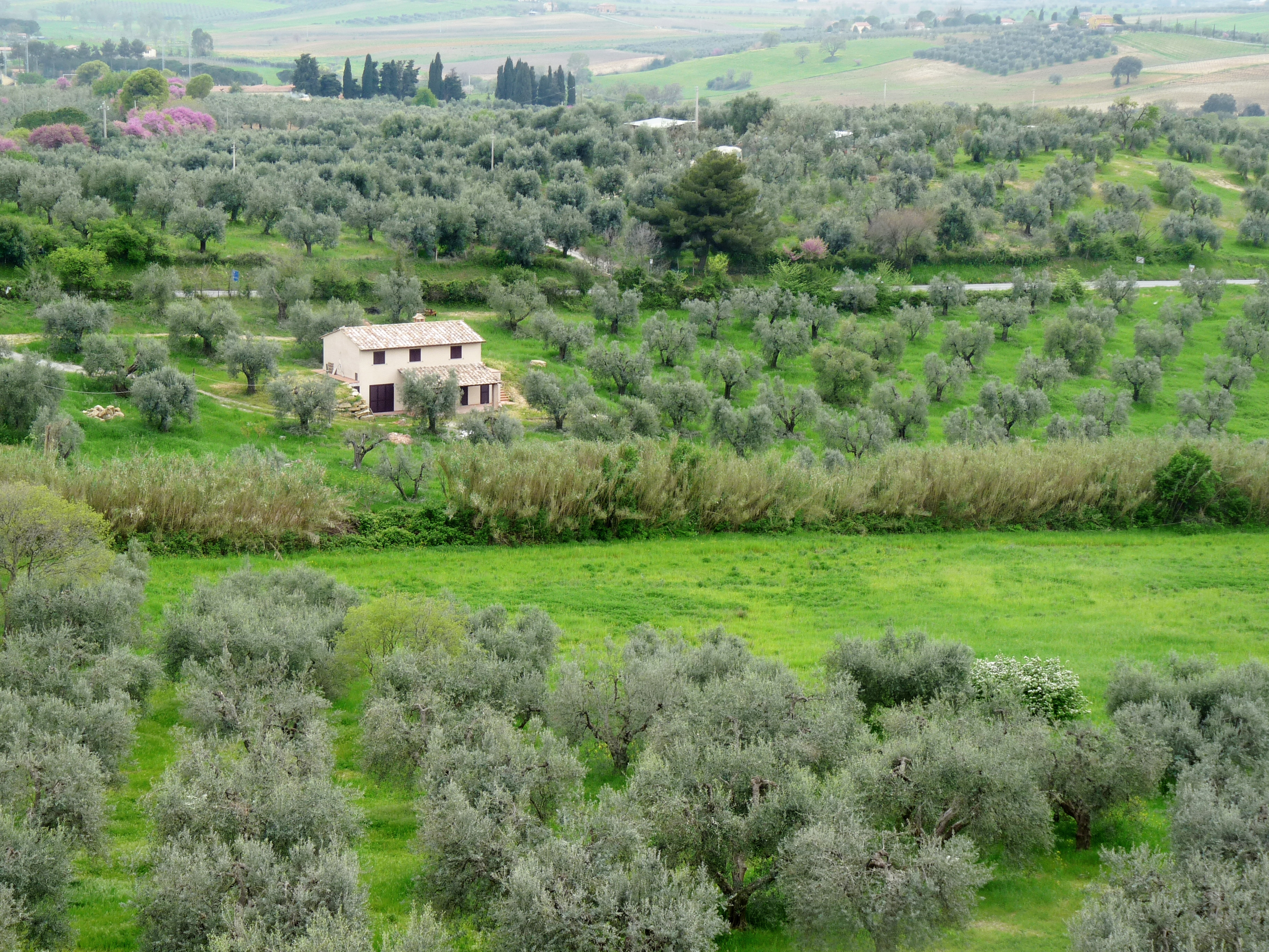 view of the countryside in Maremma, from the town "Magliano".